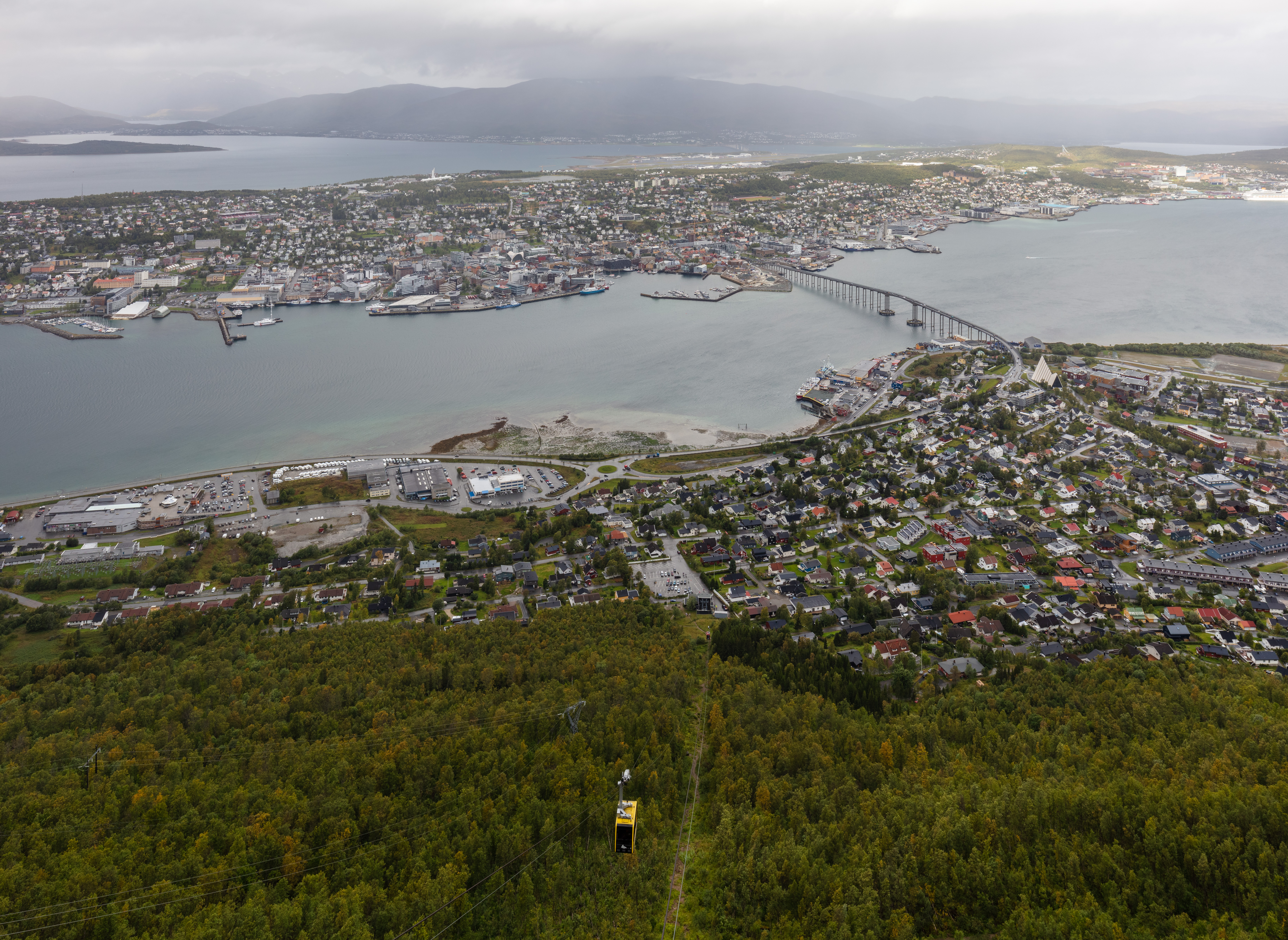 Cable car, Tromsø, Norway